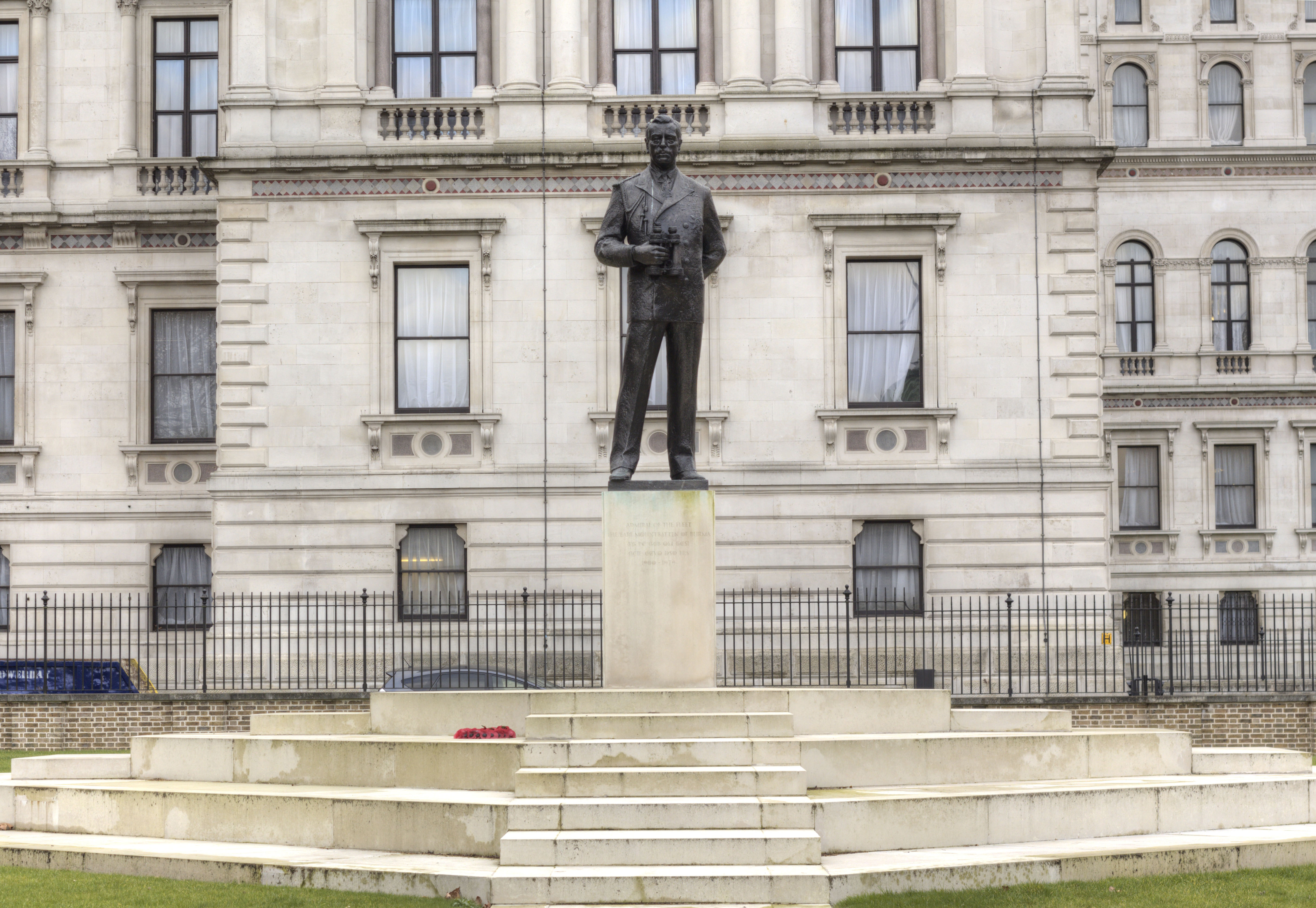 Statue of Louis Mountbatten, 1st Earl Mountbatten of Burma, Horse Guards Parade, London